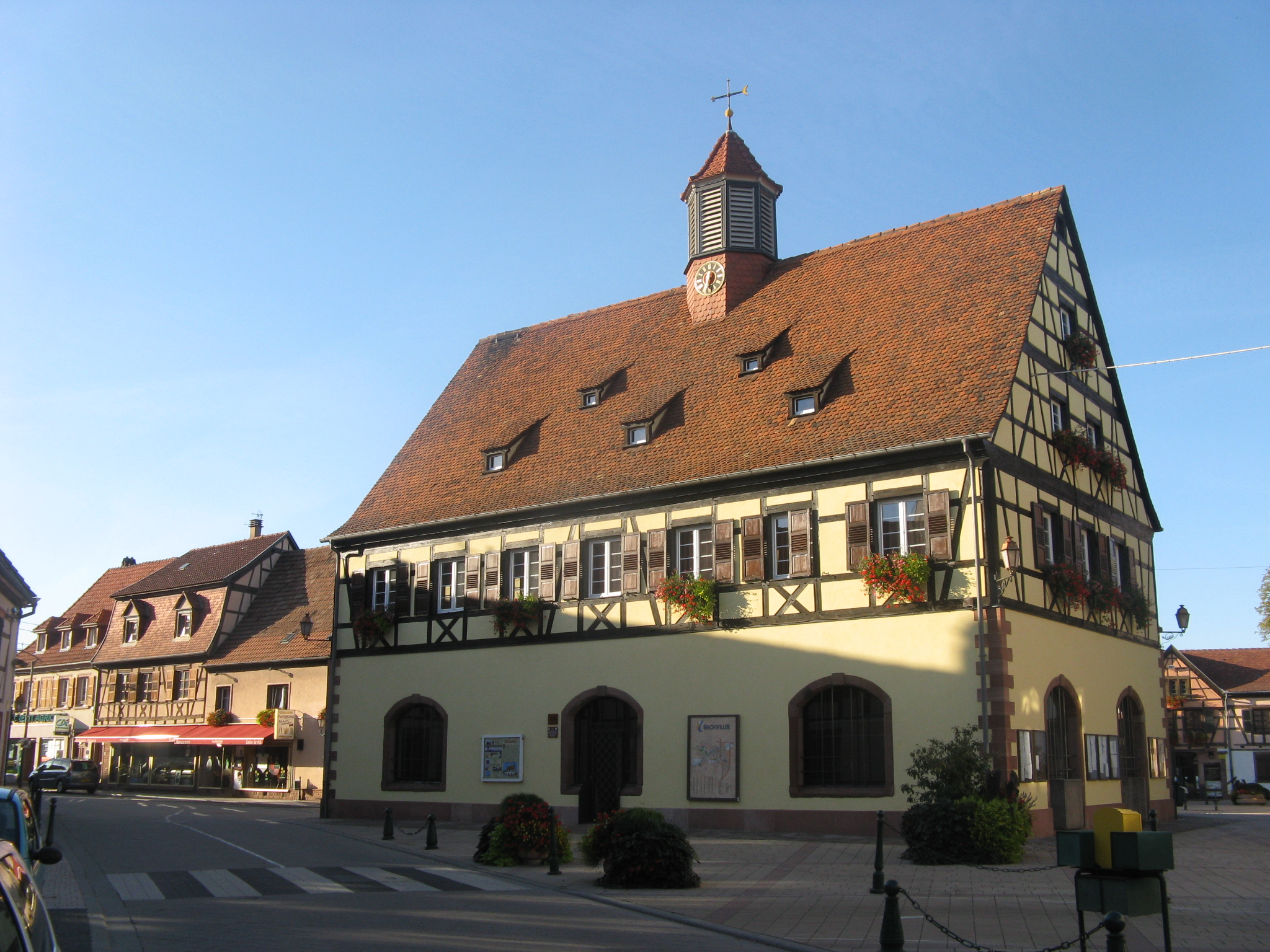 Bischwiller/Alsace, old town hall and market hall